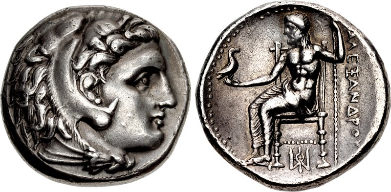 KINGS of MACEDON. Philip III Arrhidaios. 323-317 BC Struck under Asandros 323-319 BCE